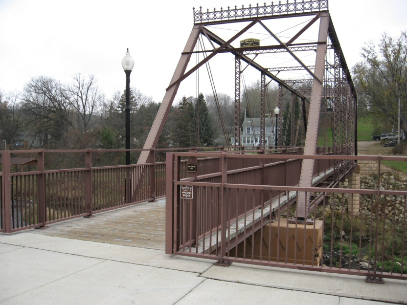 Walnut Street Walking Bridge in Mazeppa, Minnesota. Picture taken October 2006 by User:Mazzmn. This structure was added to the National Register of Historical Places in 2003